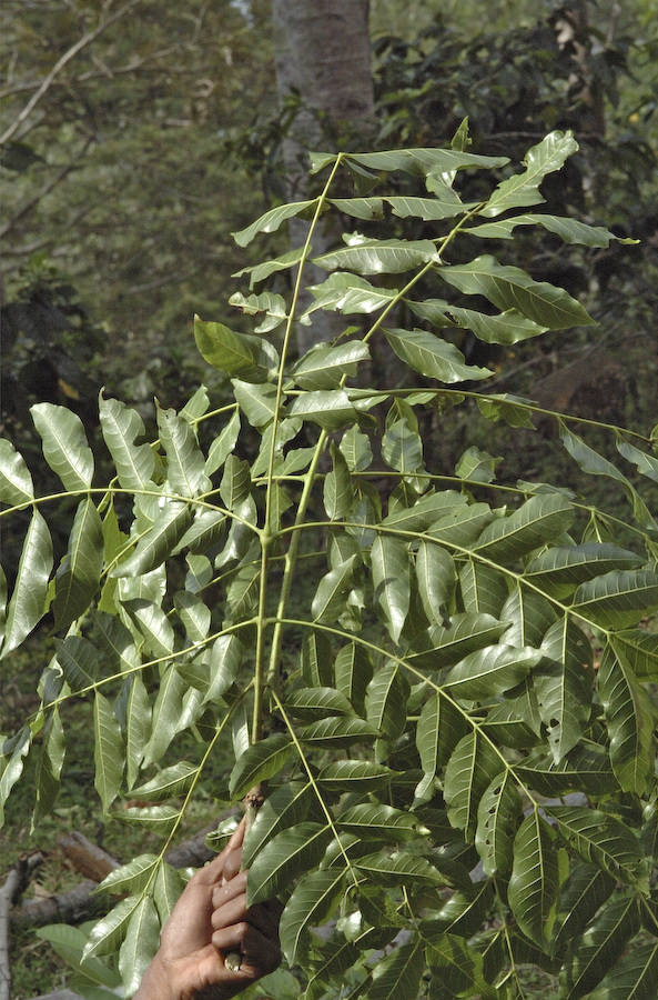 Acrocarpus fraxinifolius is one the tree of Western Ghats, India. This image shows the leaves compound, bipinnate, very large, 2-3_pinnate, paripinnate; stipules caducous; pinnae 3-5 pairs Attributions: B. R. Ramesh, N. Ayyappan, Pierre Grard, Juliana Prosperi, S. Aravajy, Jean Pierre Pascal, The Biotik Team, French Institute of Pondicherry. Contributors:Dr. N. Ayyappan, Biotik Team, French Institute of Pondicherry.